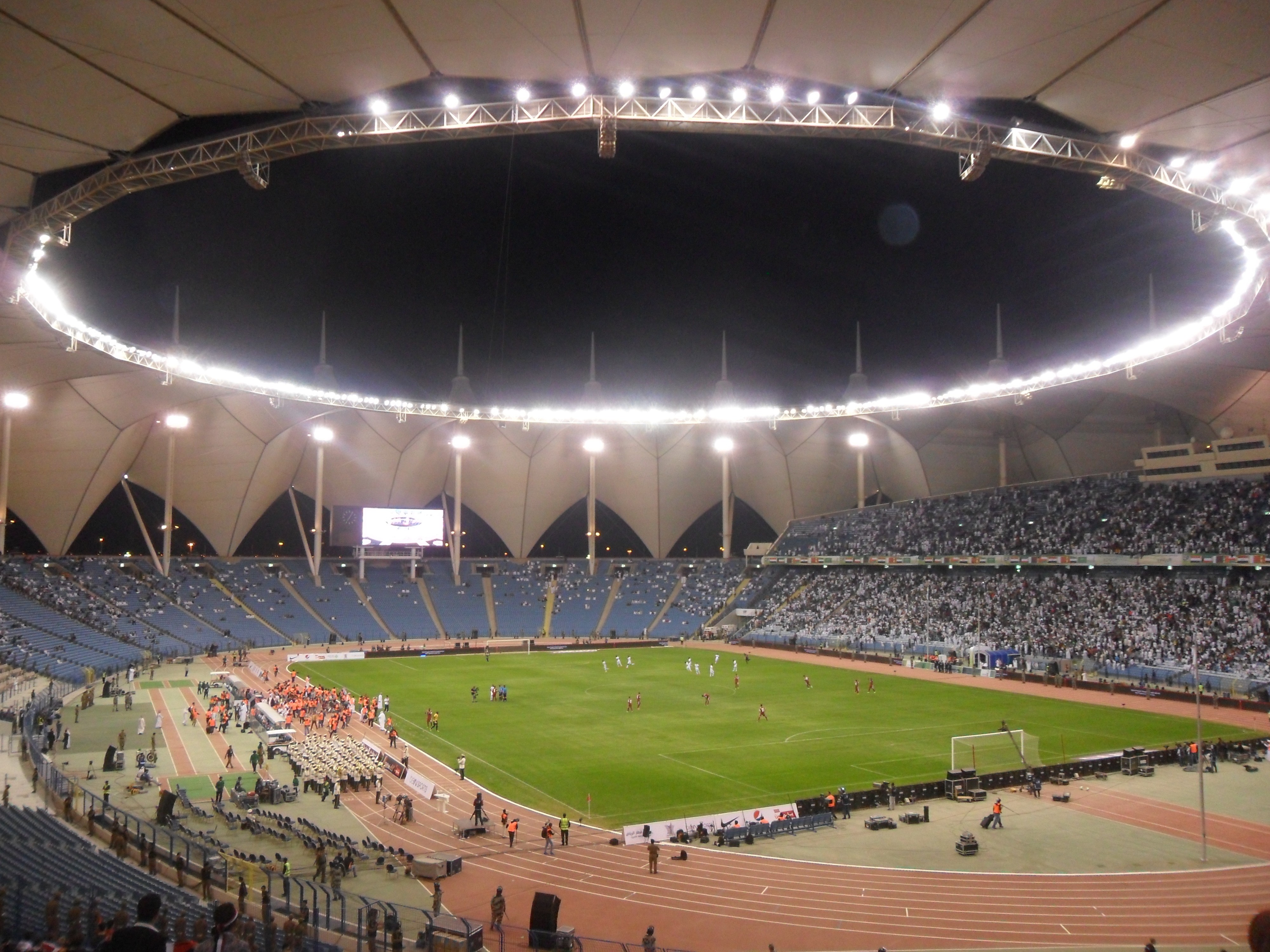 Opening The 22nd Arabian Gulf Cup, Saudi Arabia vs Qatar in King Fahd International Stadium, Riyadh, Saudi Arabia. (13 November 2014)